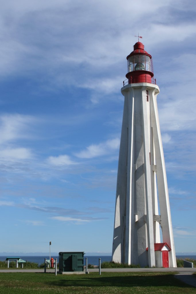 Pointe-au-Père lighthouse, Province of Quebec, Canada, taken on august 18, 2007. Taken by Pierre-Étienne Messier with a Canon Rebel Xt.